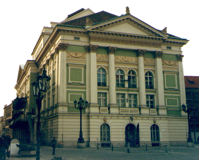 Praha, Czech Republik: Stavovské divadlo (Ständetheater, Theatre of the Estates)